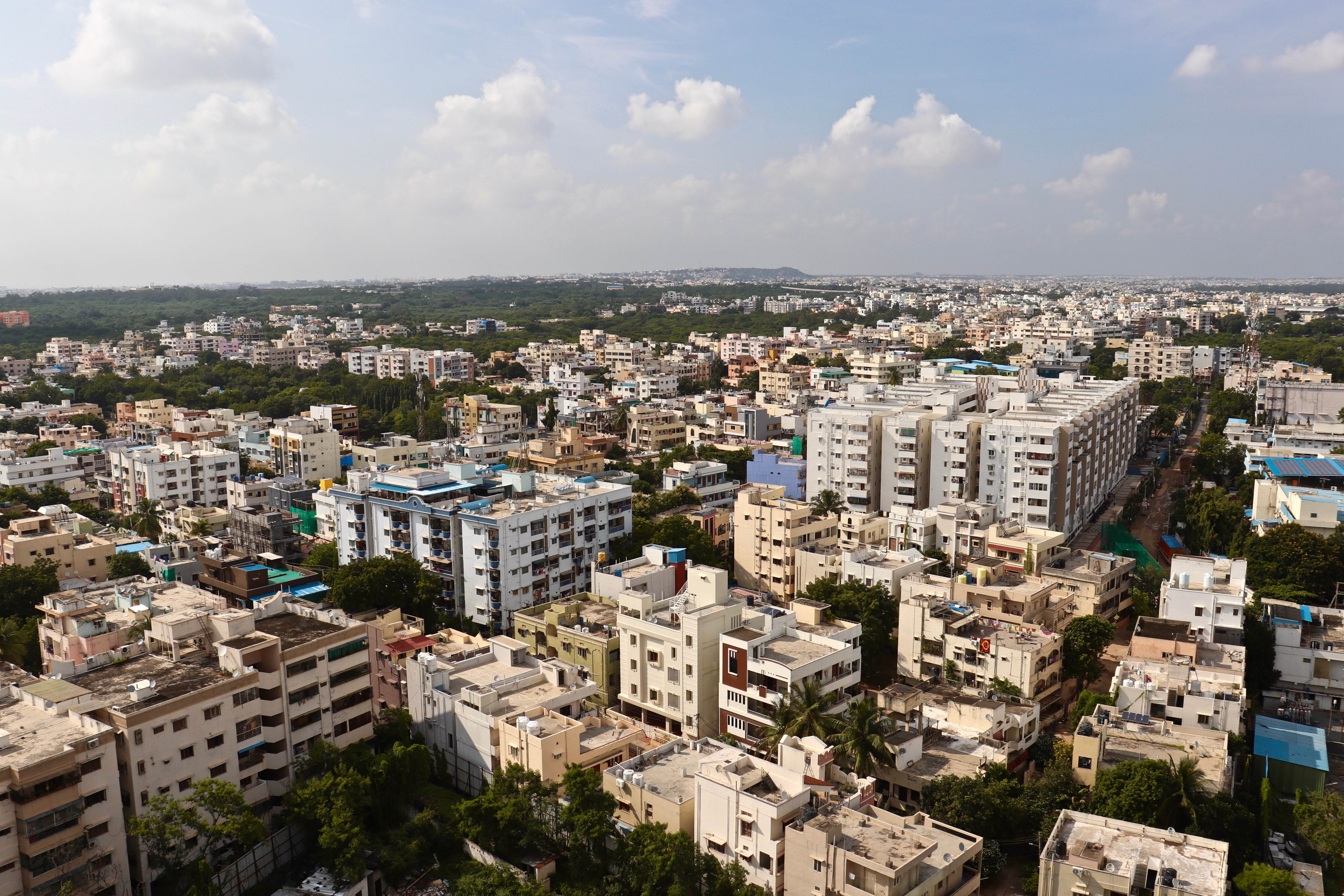 Uppal aerial view from NSL sez